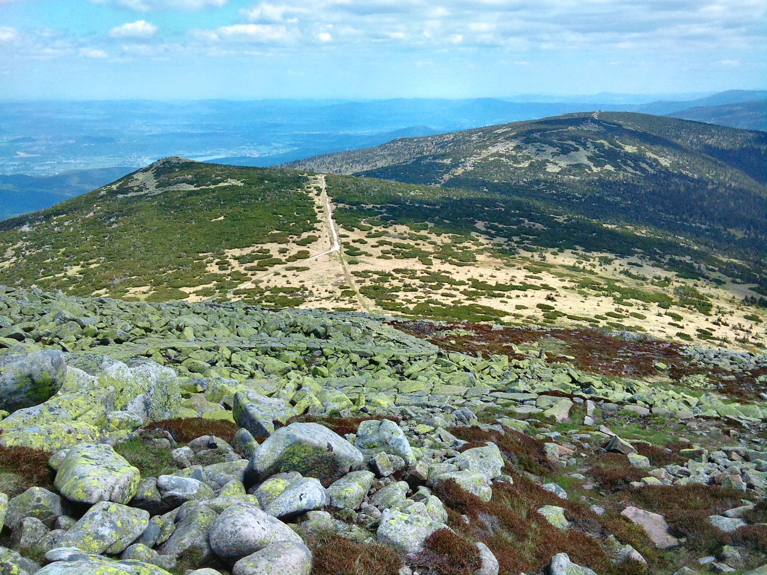 Śmielec from Vysoké Kolo (Wielki Szyszak) in the Krkonoše Mountains